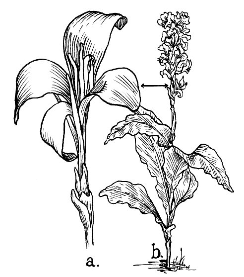 line art drawing of canna.